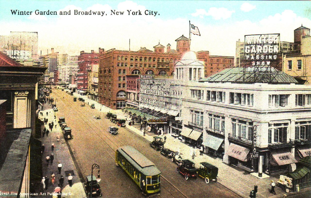 1917 postcard of New York's Winter Garden Theatre showing The Passing Show of 1916